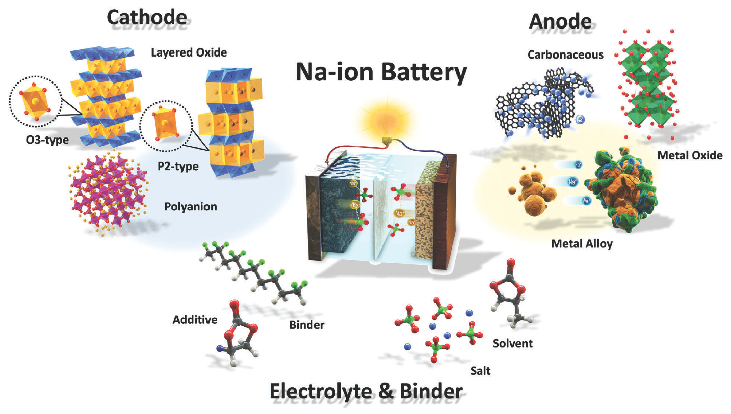 Illustration of a Na-Ion battery system